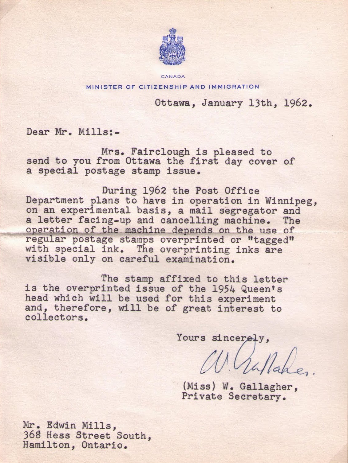 Offiicial Canadian letter concerning the introduction of tagged stamps